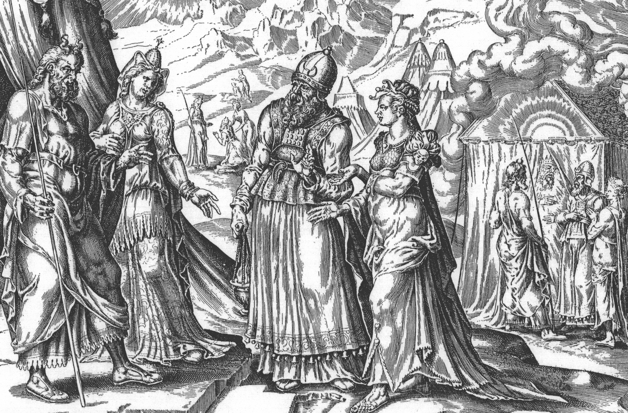 Miriam and Aaron complain against Moses, engraving from "The Bible and Its Story Taught by One Thousand Picture Lessons, vol. 2", edited by Charles F. Horne and Julius A. Bewer, published by Francis R. Niglutsch, New York, 1908.